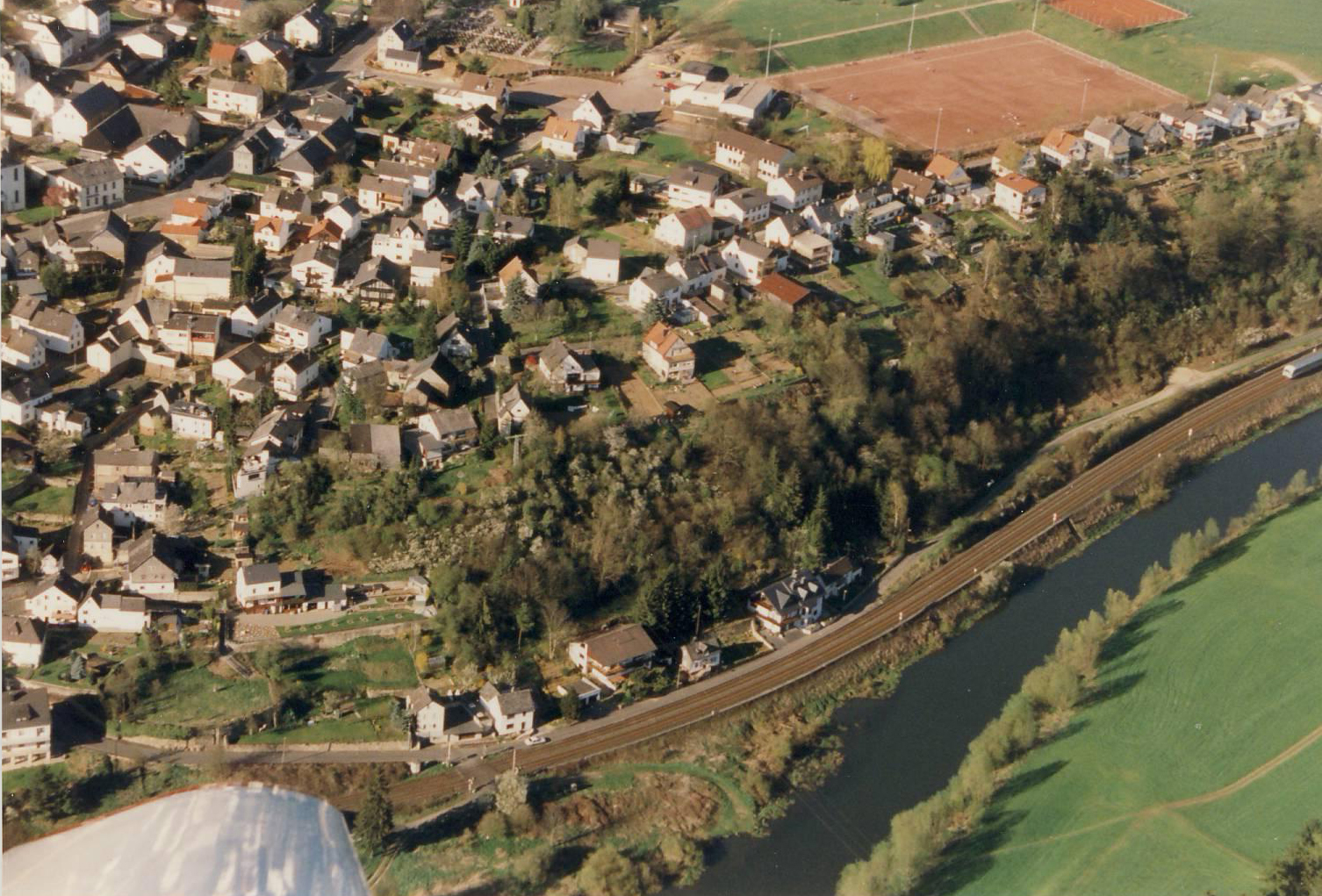 photographed by Maximilian Schmitz born in Arfurt